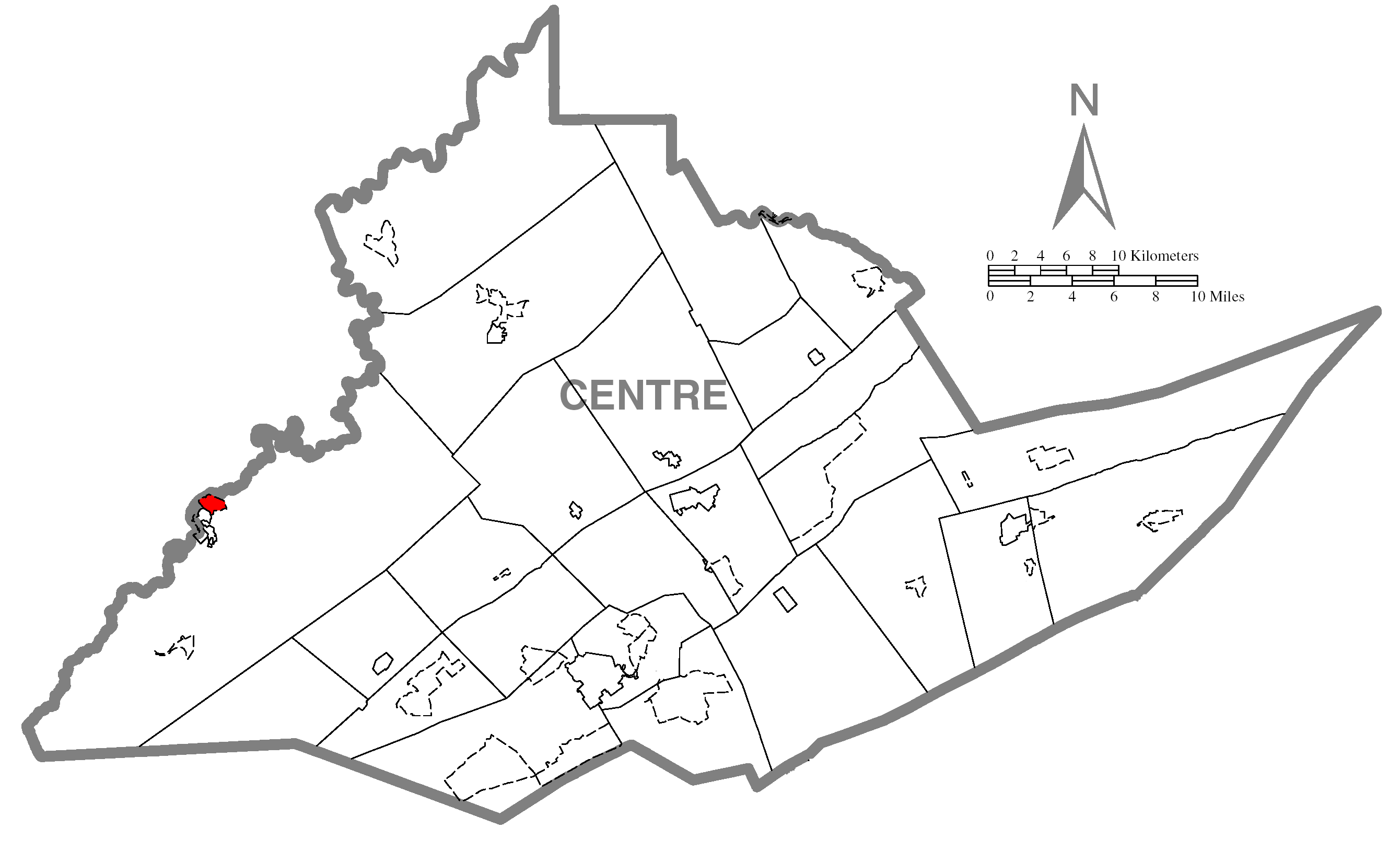 A map of Centre County showing North Philipsburg, Pennsylvania (alternate) highlighted on the map.